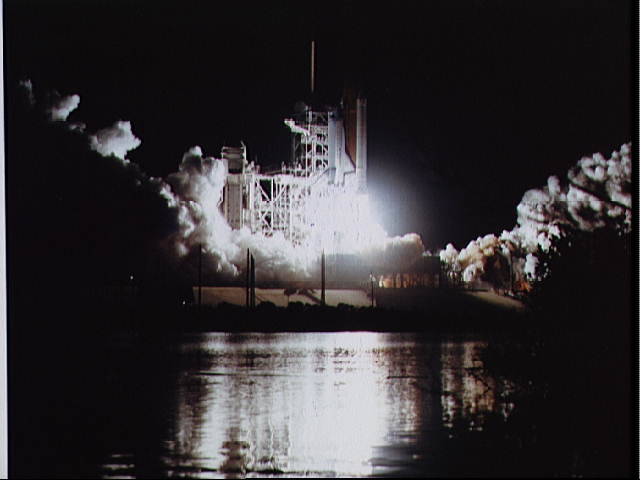 Night launch of the Shuttle Atlantis and begining of STS 61-B mission. Reflections of the launch can be seen in the water in front of the launch complex.